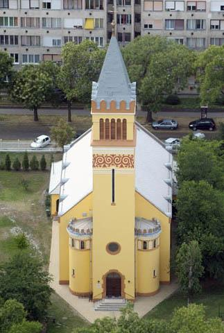 Kispest, Budapest, district XIX, Hungary, aerial photography